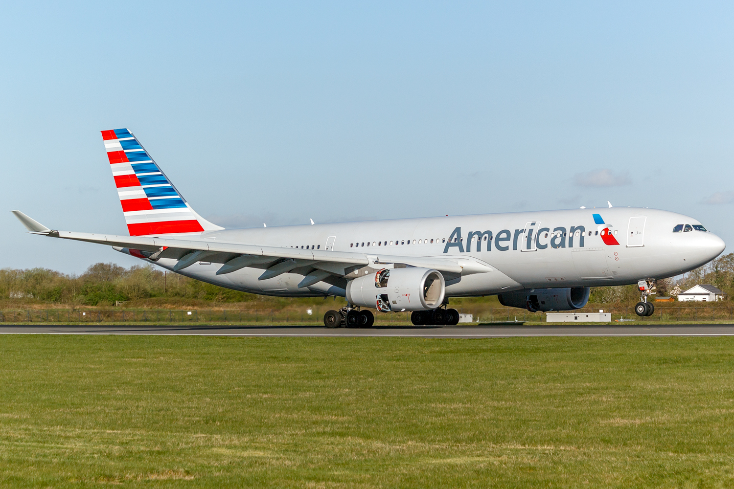 American Airlines Airbus A330-243